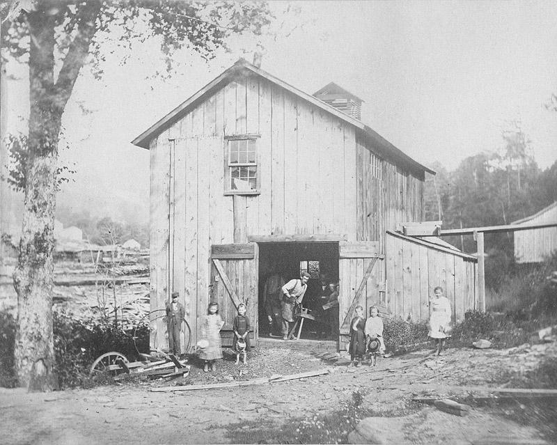 A Blacksmith with his family, upstate New York, 1890.